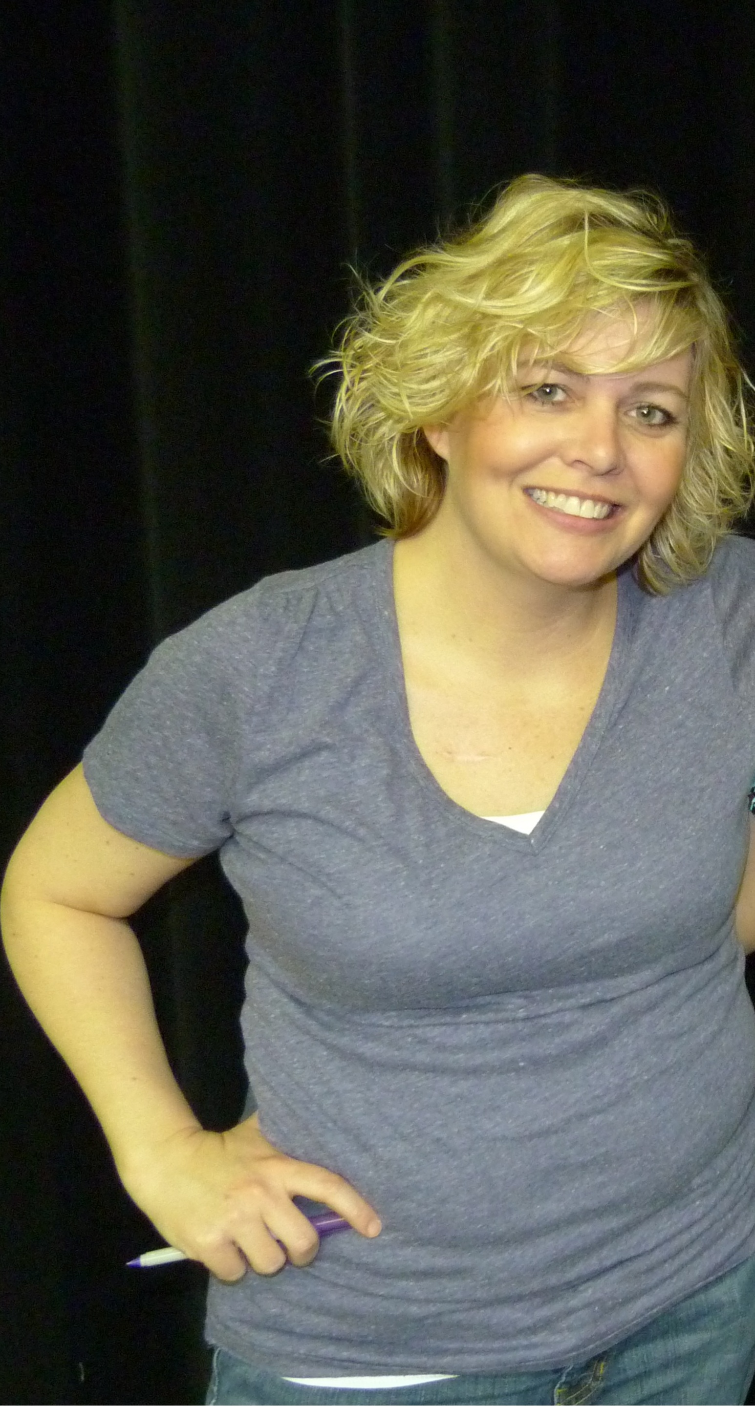 Lisa McMann at Cortez High School April 4, 2011